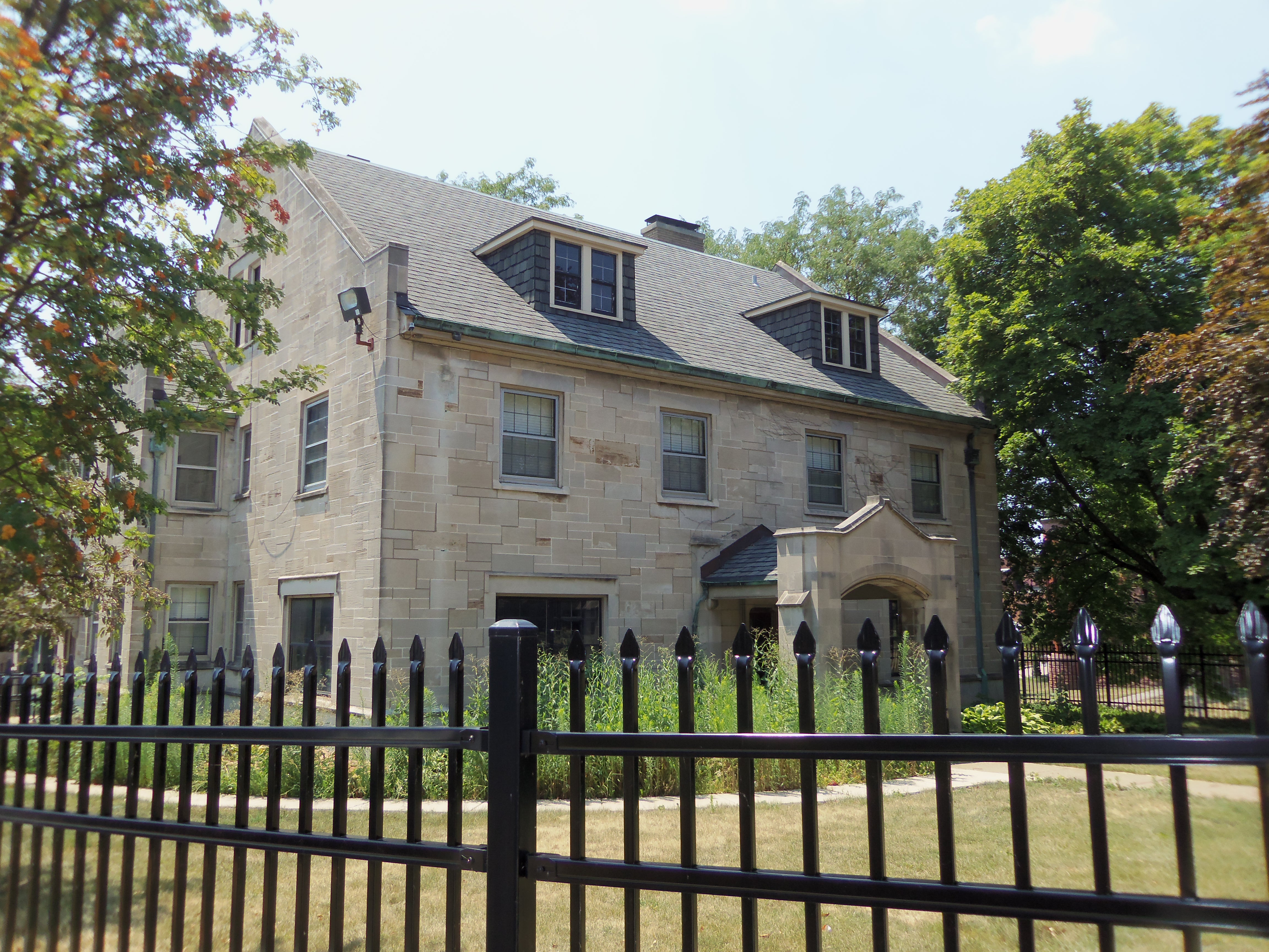 The Dean's House on the grounds of Trinity Episcopal Cathedral Davenport, Iowa